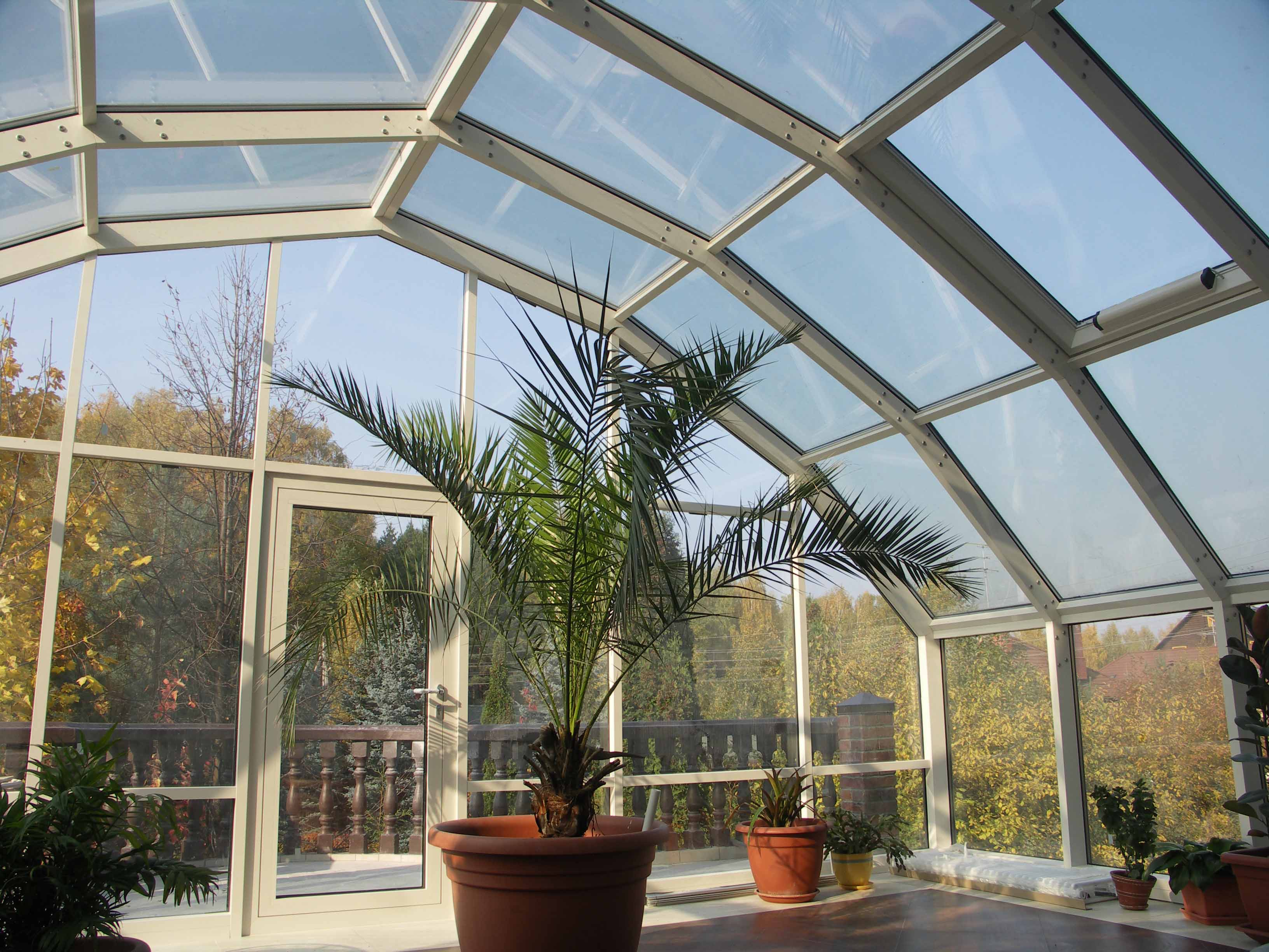 Зимний сад. Дымовые клапана.